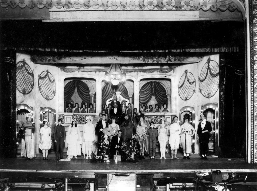 Creator: Unidentified Location: Brisbane, Queensland Description: Over 30 people on stage wearing various costumes with an elaborate set in the background. View this page at the State Library of Queensland: Information about State Library of Queensland's collection